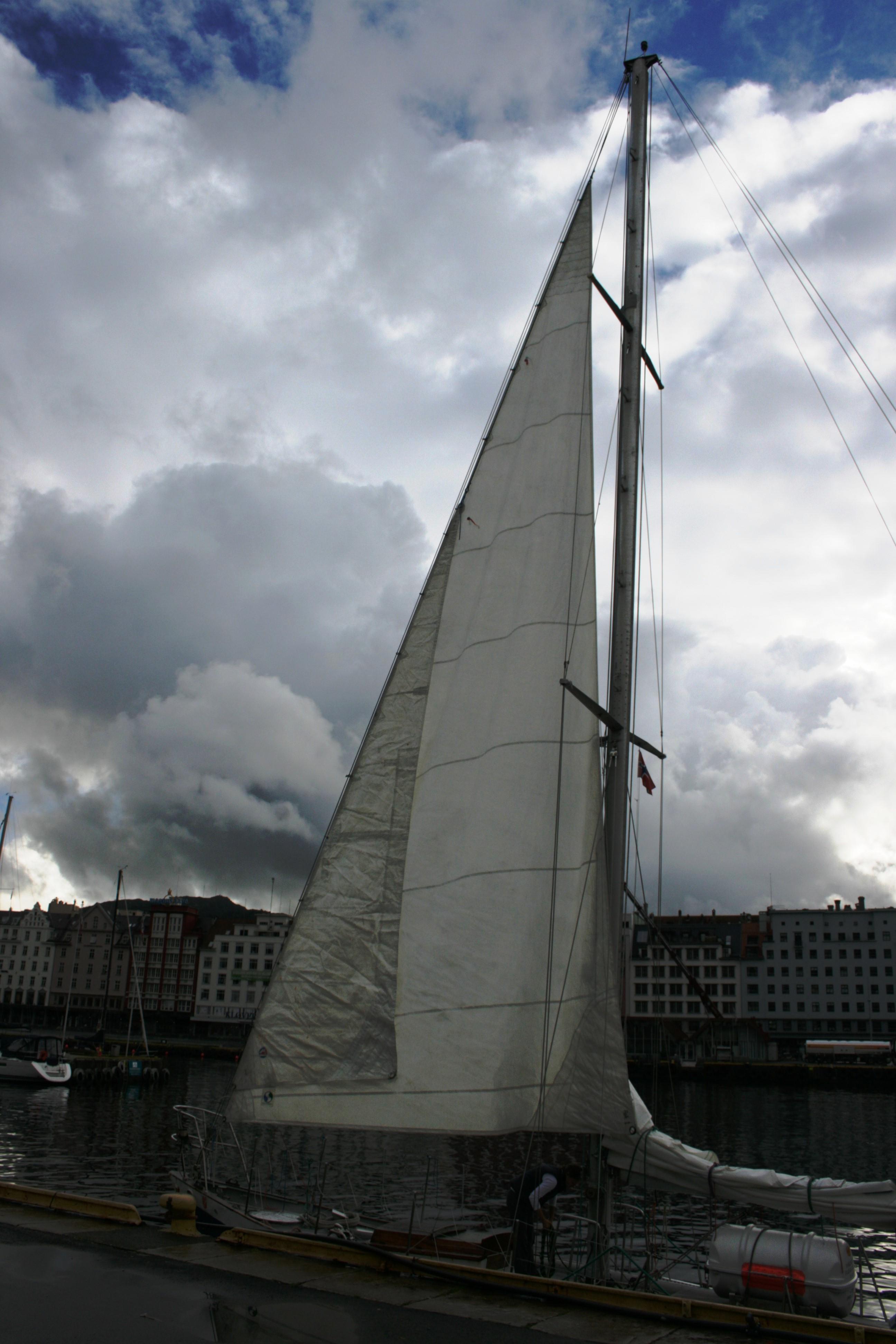 SY Bies with two foresails (normal and storm) in Bergen